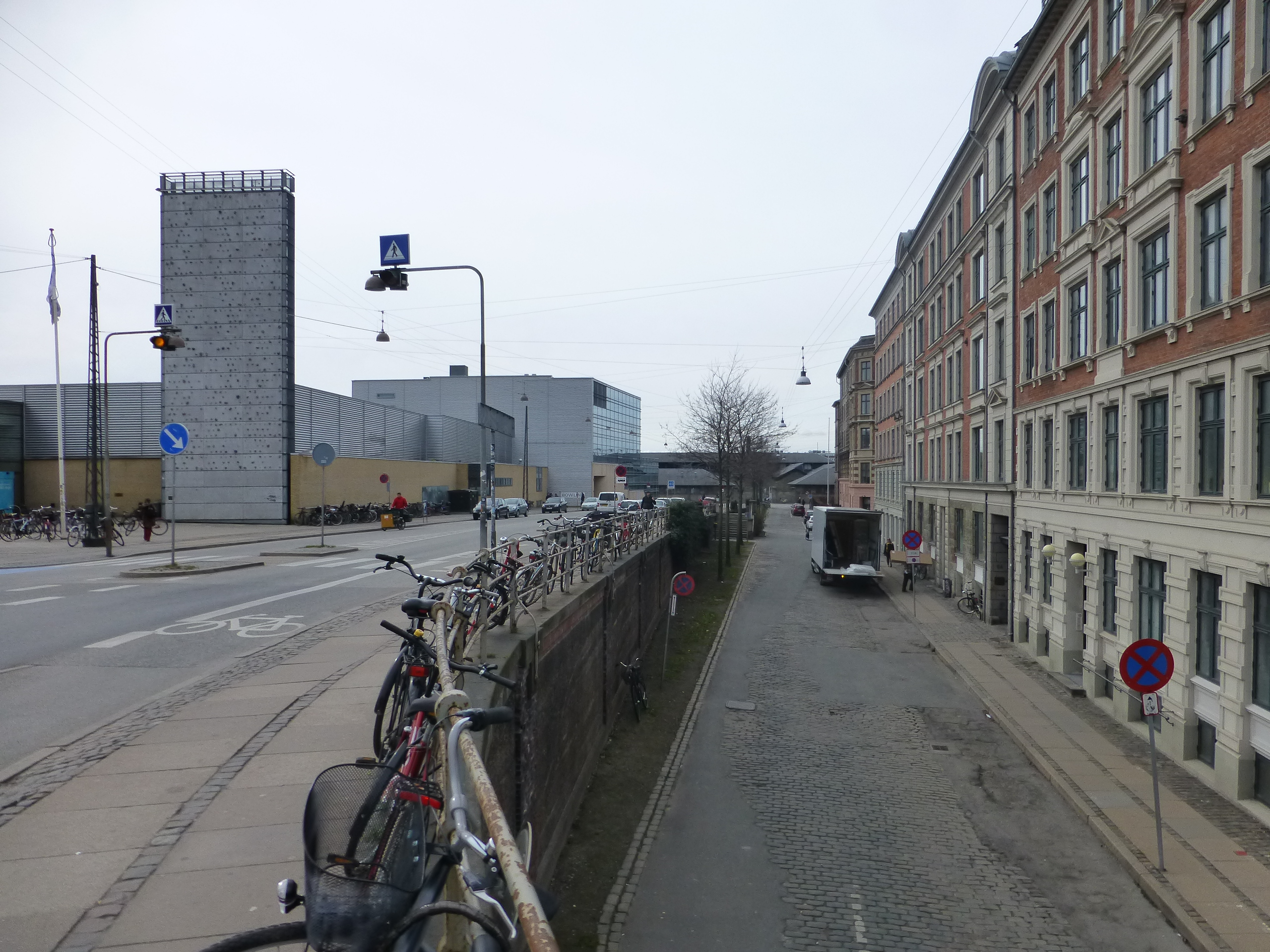 Tietgensgade is a street in Vesterbro in Copenhagen.